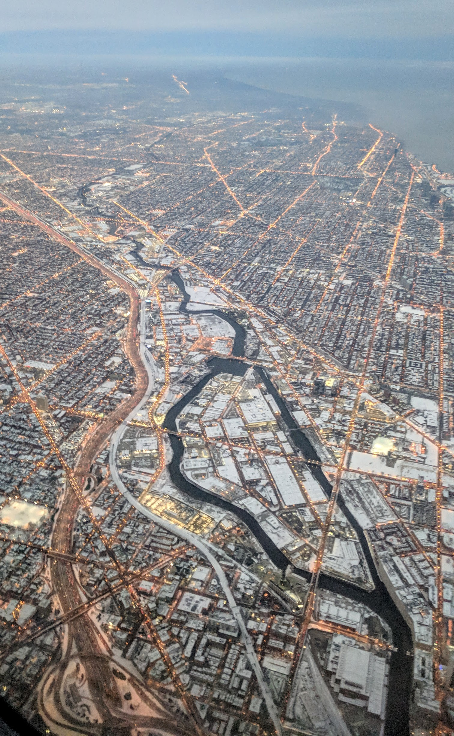 Aerial view of the North Branch of the Chicago River, from the south, near sundown